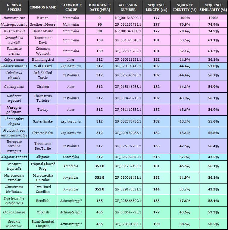 TMEM275 Ortholog Table